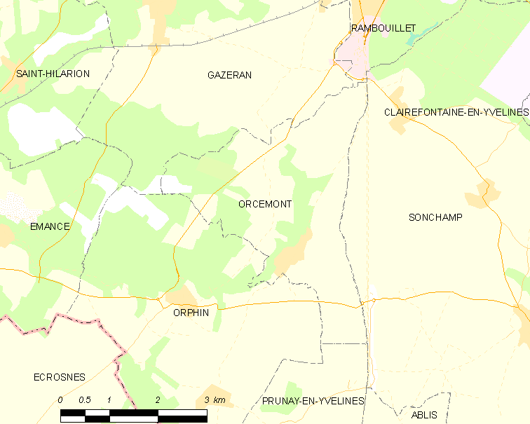 Map of French municipality Orcemont